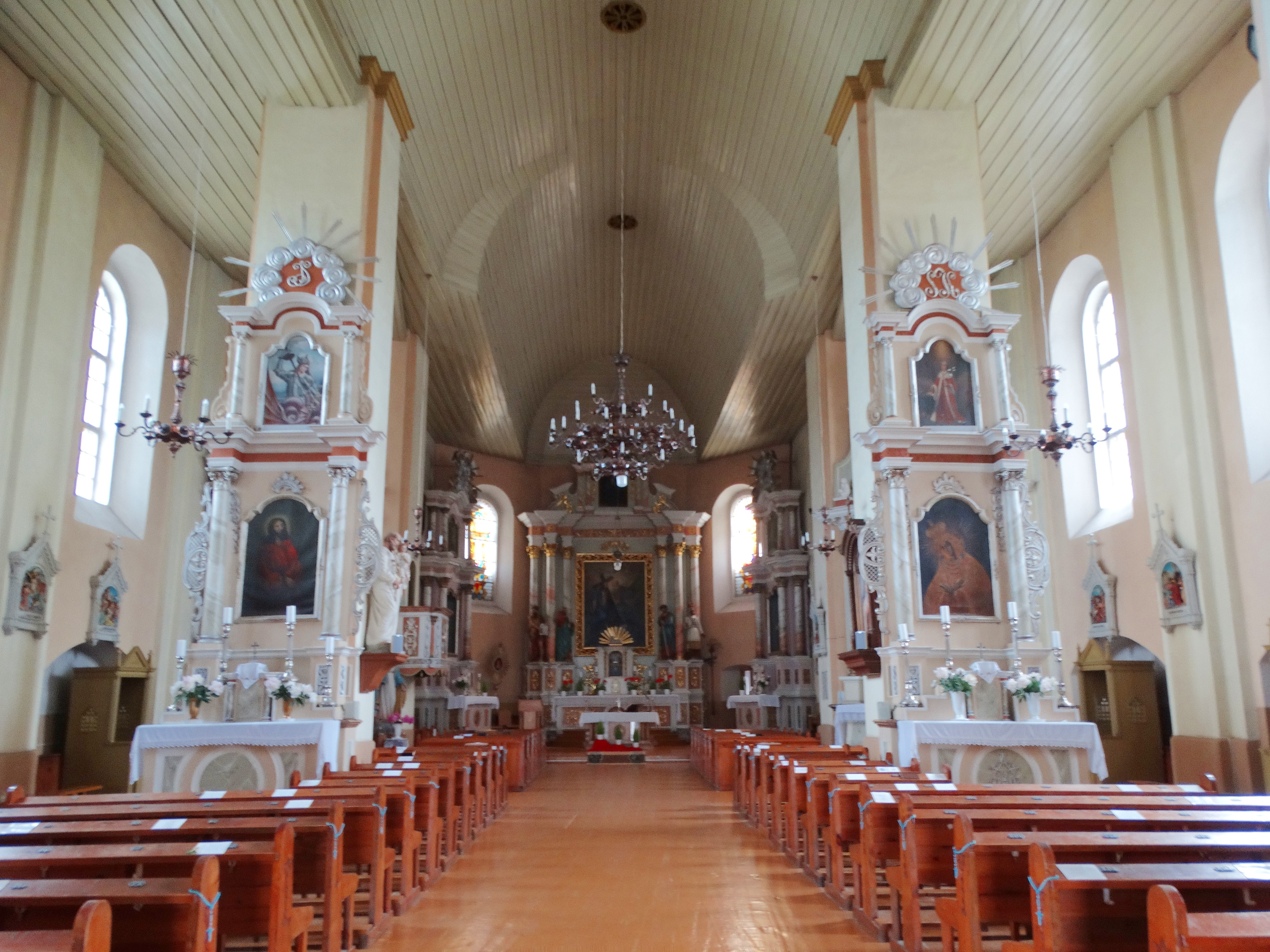 Šėta, church, interior, Kėdainiai district, Lithuania